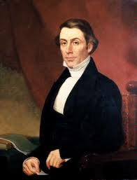 John Price Durbin, 27th Chaplain of the United States Senate, 1831-1832